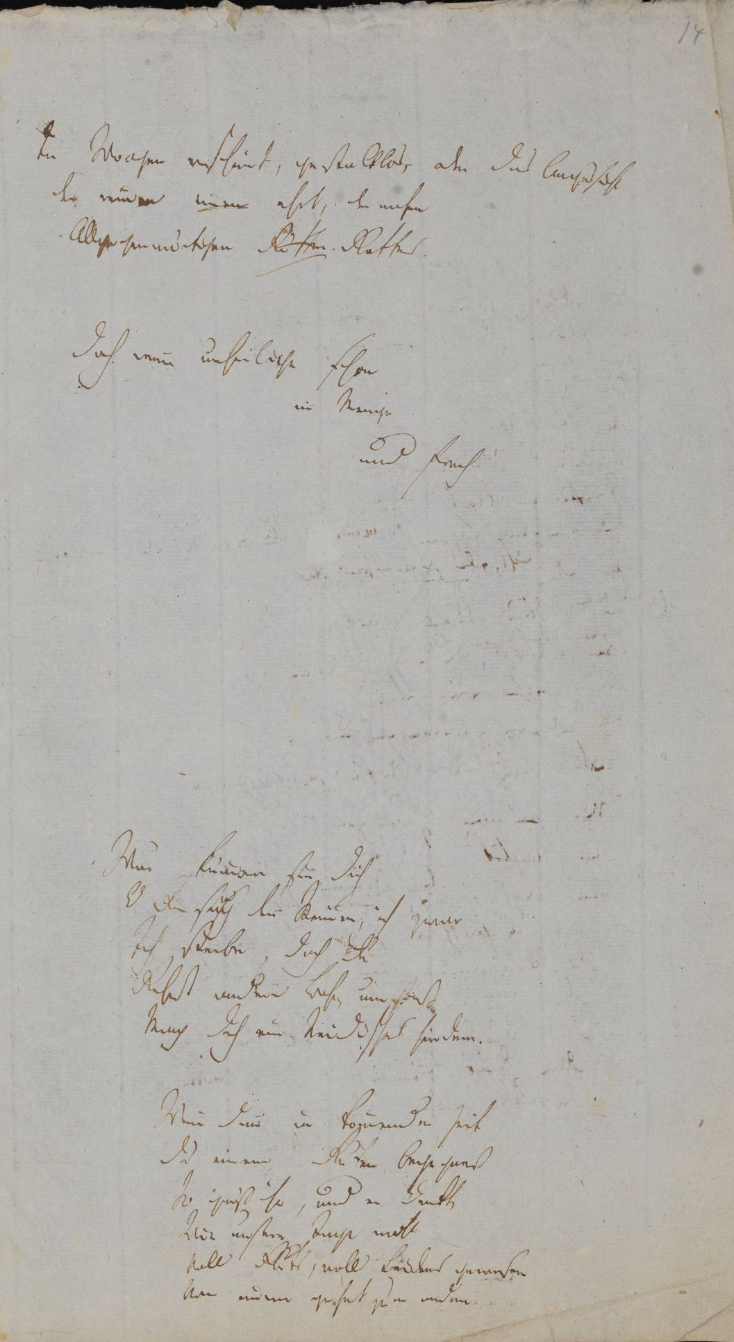 Manuscript by Friedrich Hölderlin "An die Madonna" page 7